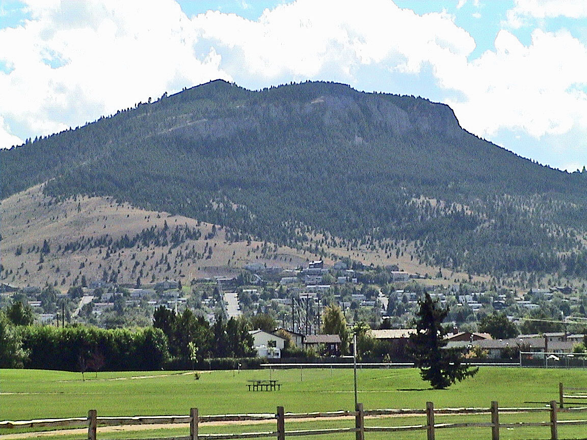 View of Mount Helena, in Helena, Montana, U.S. Camera looking southward. Digital enhancement included brightness, contrast, and sharpness adjustments.